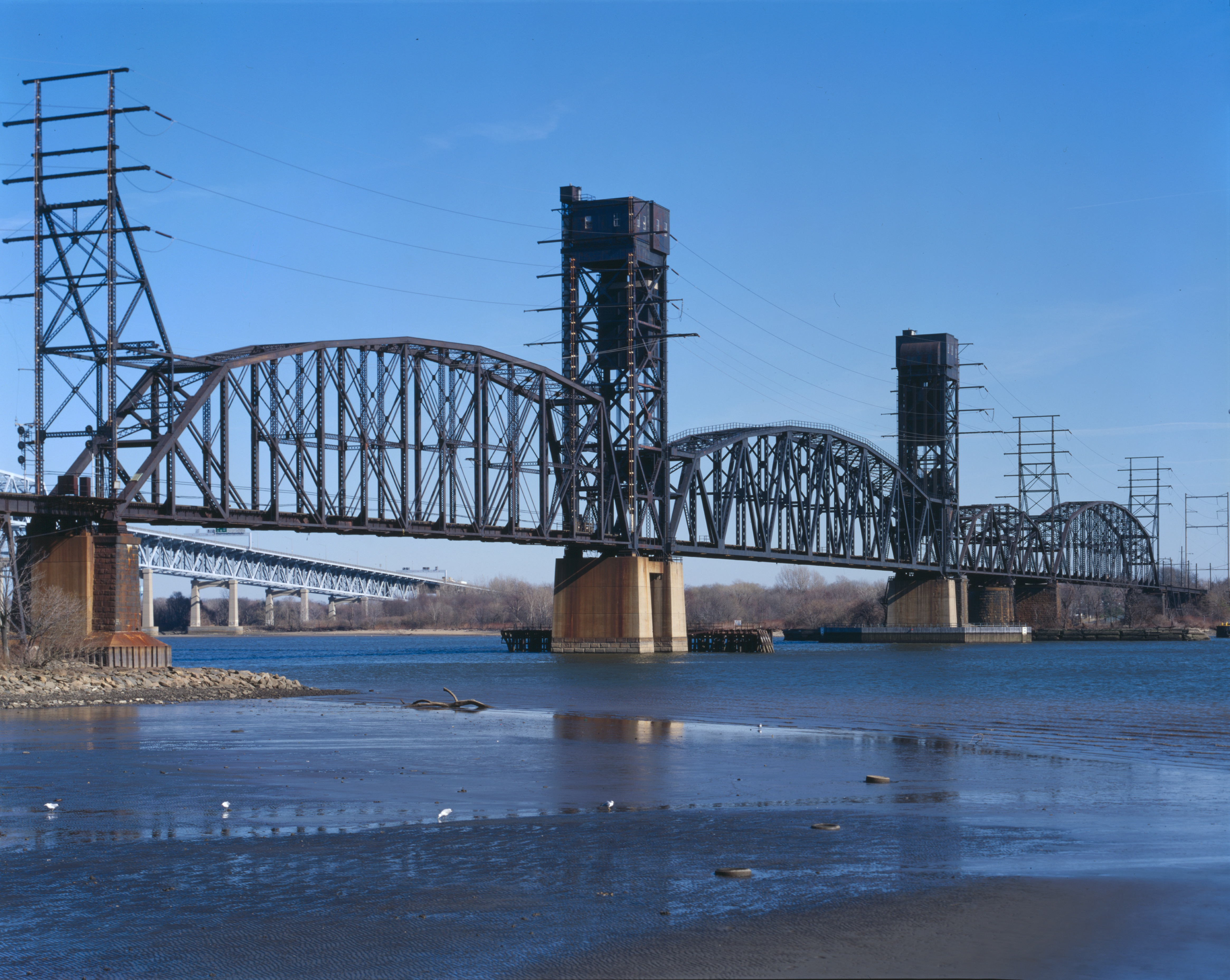 The Delair Bridge spanning the Delaware River near Philadelphia, Pennsylvania as seen from the west. Photo taken in 1999. The picture shows that the bridge has a total of four spans. The second one is built as a lift bridge and the third one is the old turning bridge.